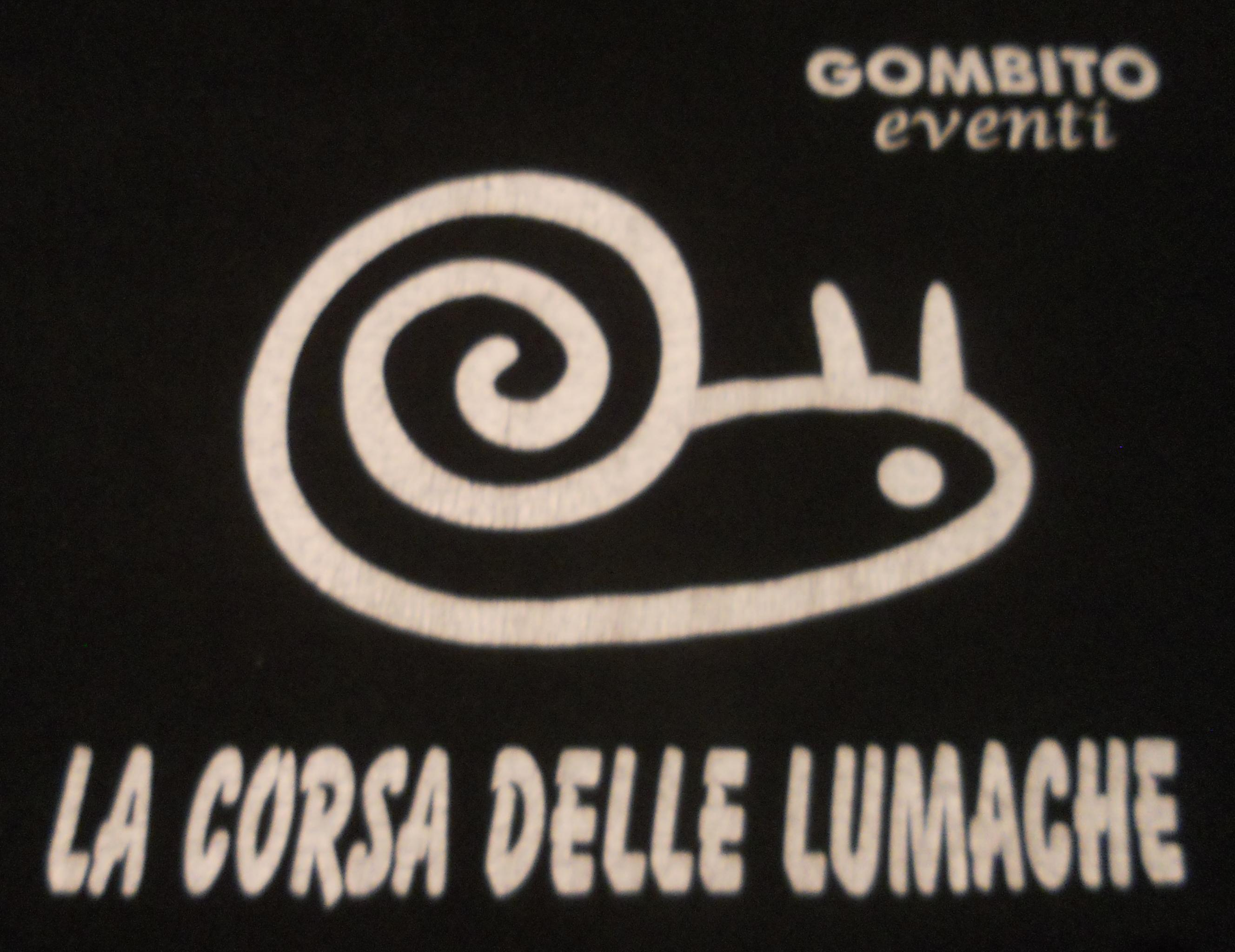 logo